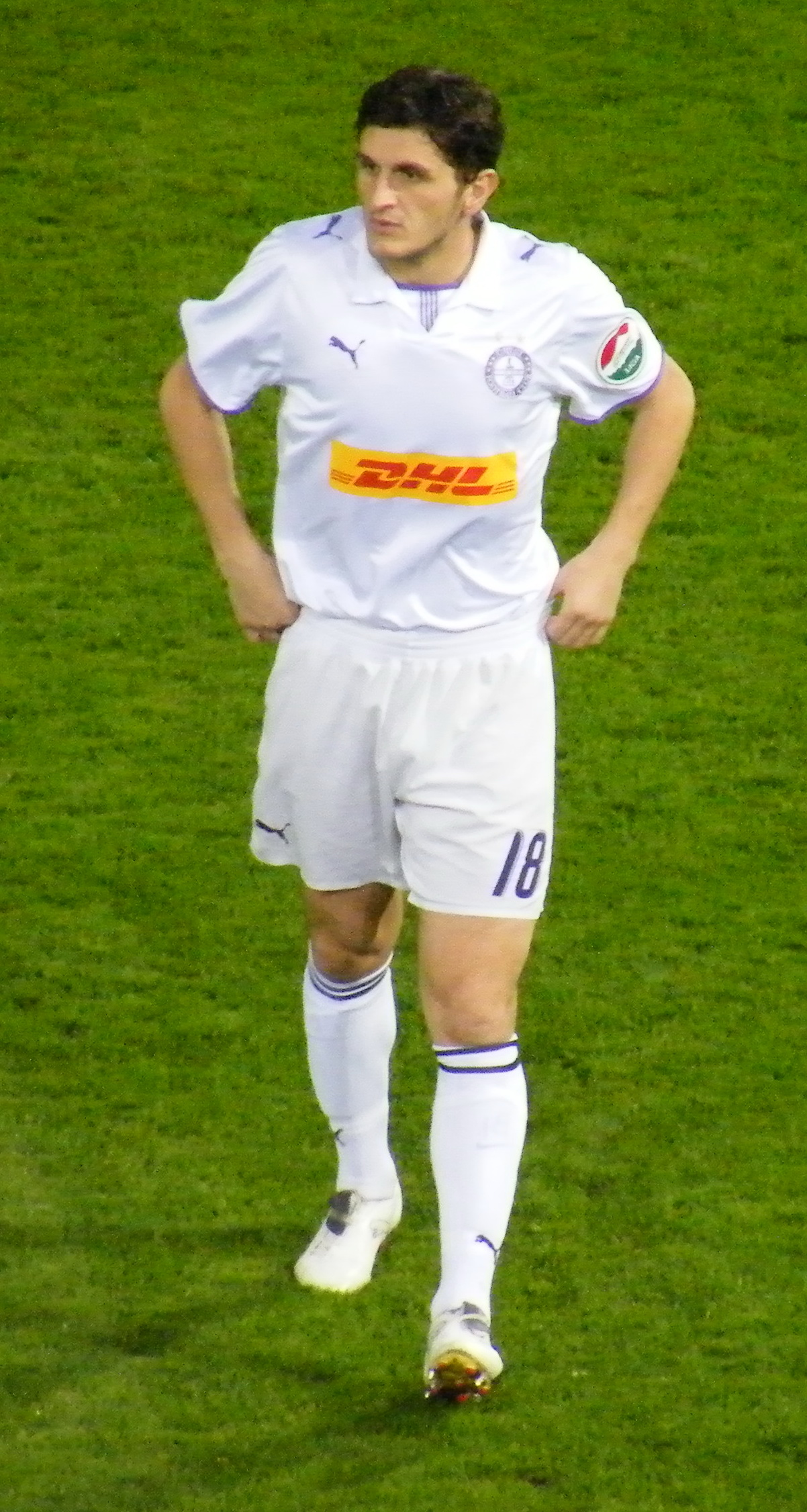 Mirsad Mijadinoski Macedonian football player